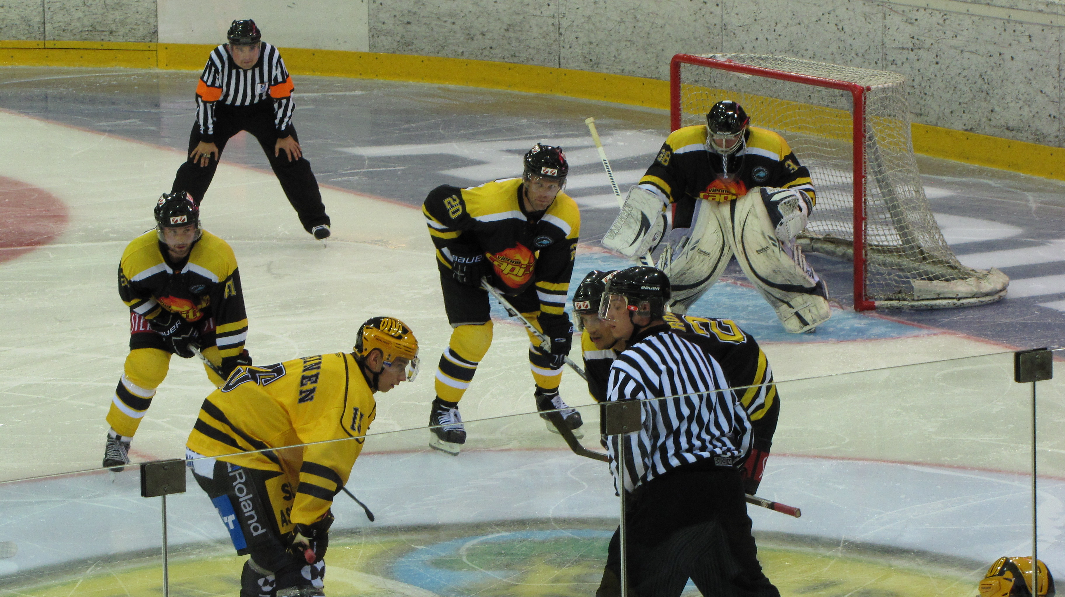 Ice hockey game between Austrian Vienna Capitals and Finnish KalPa in the Albert Schultz Eishalle in Vienna, Austria. The game was part of European Trophy 2011 tournament.